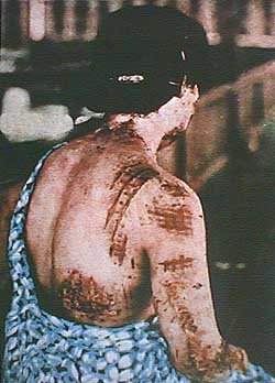 Japanese woman suffering burns from thermal radiation after the United States dropped nuclear bombs on Japan in World War II. This is not a result of ionizing radiation but rather heat from the blast's thermal pulse being reflected and absorbed by different parts of the clothing pattern.